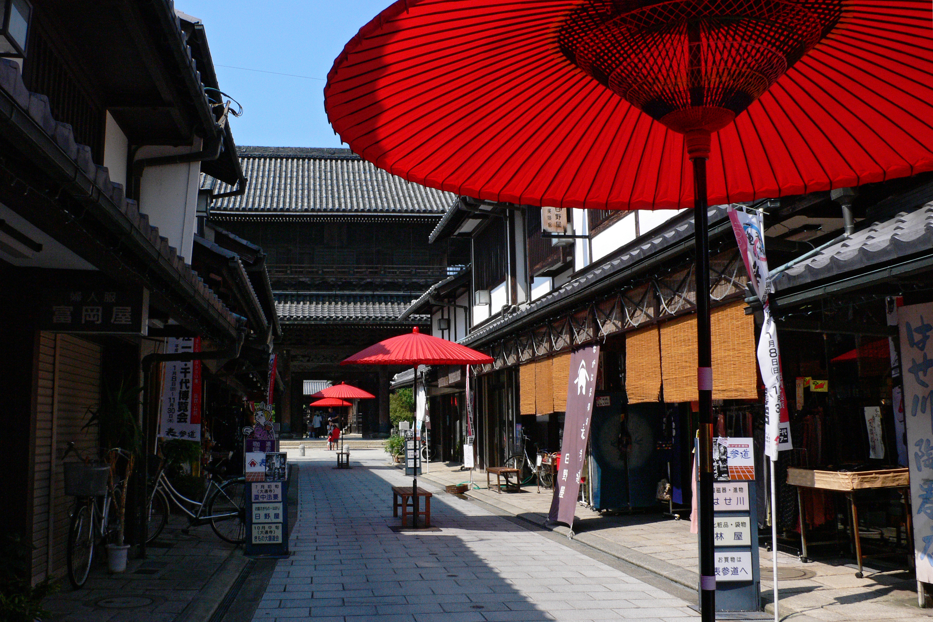 Daitsuji in Nagahama, Shiga prefecture, Japan